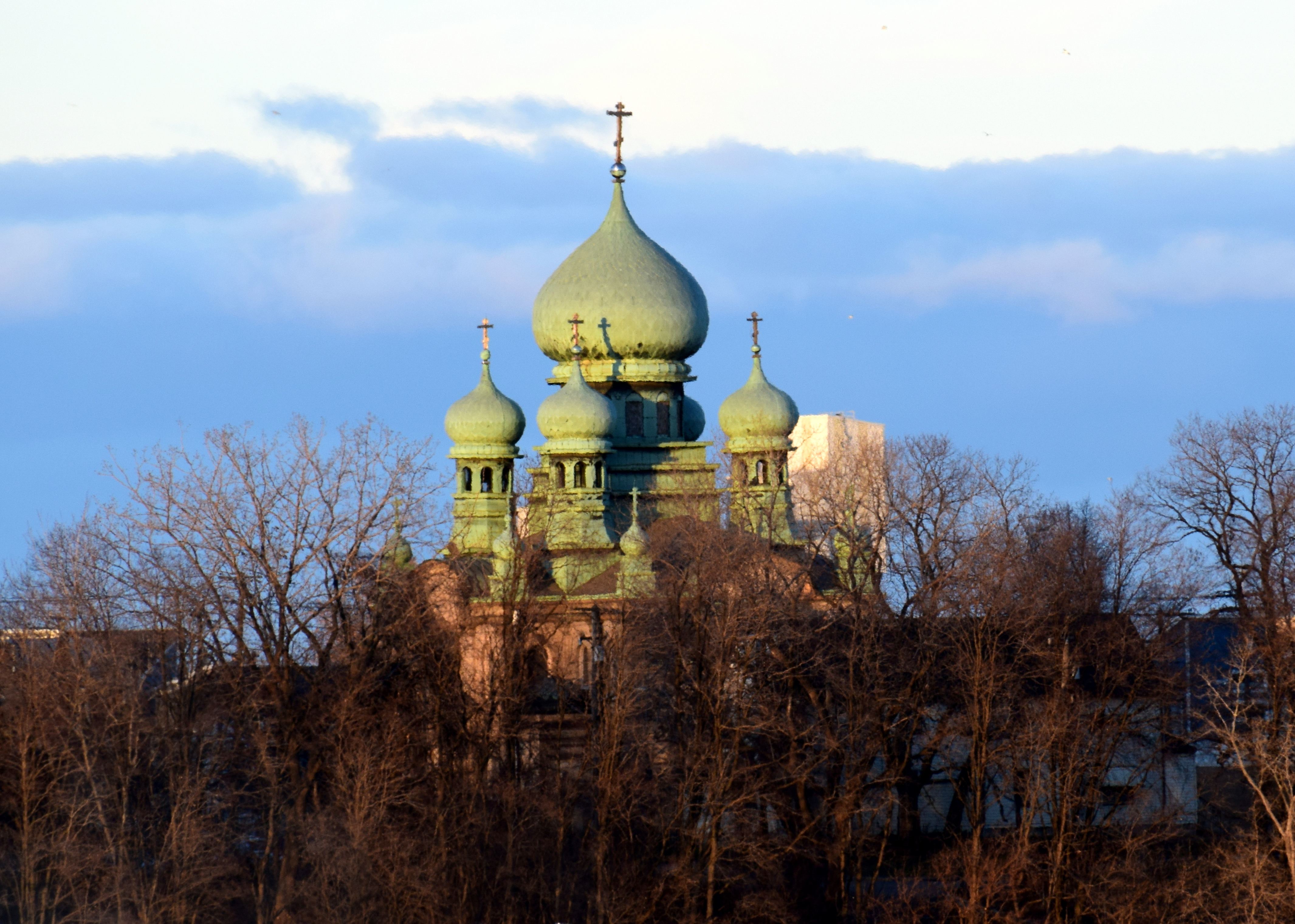 Saint Theodosius Russian Orthodox Cathedral (Cleveland, Ohio) - exterior photographed from A Christmas Story House property